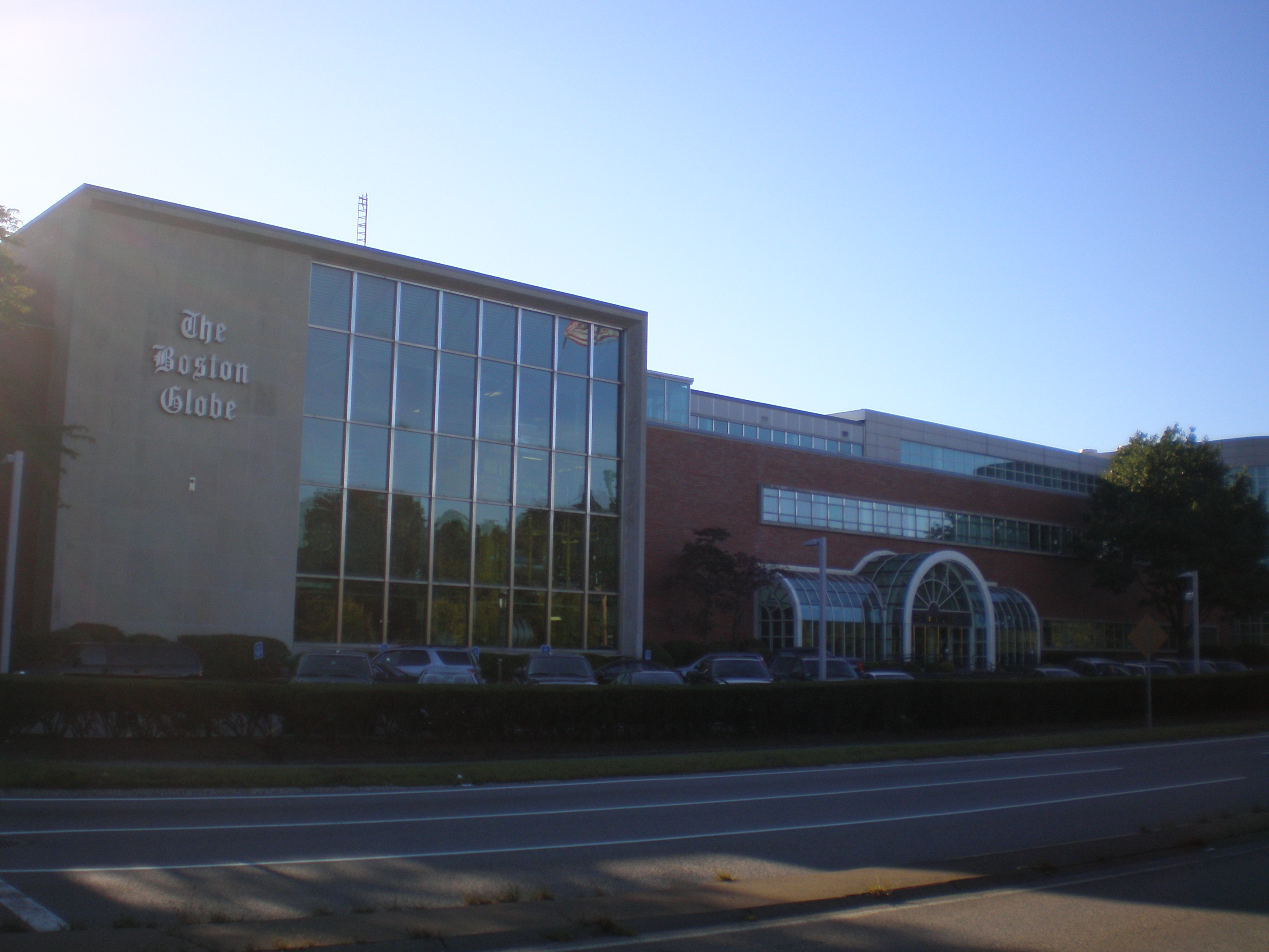 Headquarters of The Boston Globe newspaper; 135 Morrissey Boulevard in the Dorchester neighborhood of Boston, Massachusetts